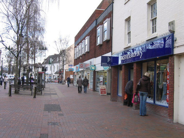 Bromsgove High Street showing Cancer Research Shop